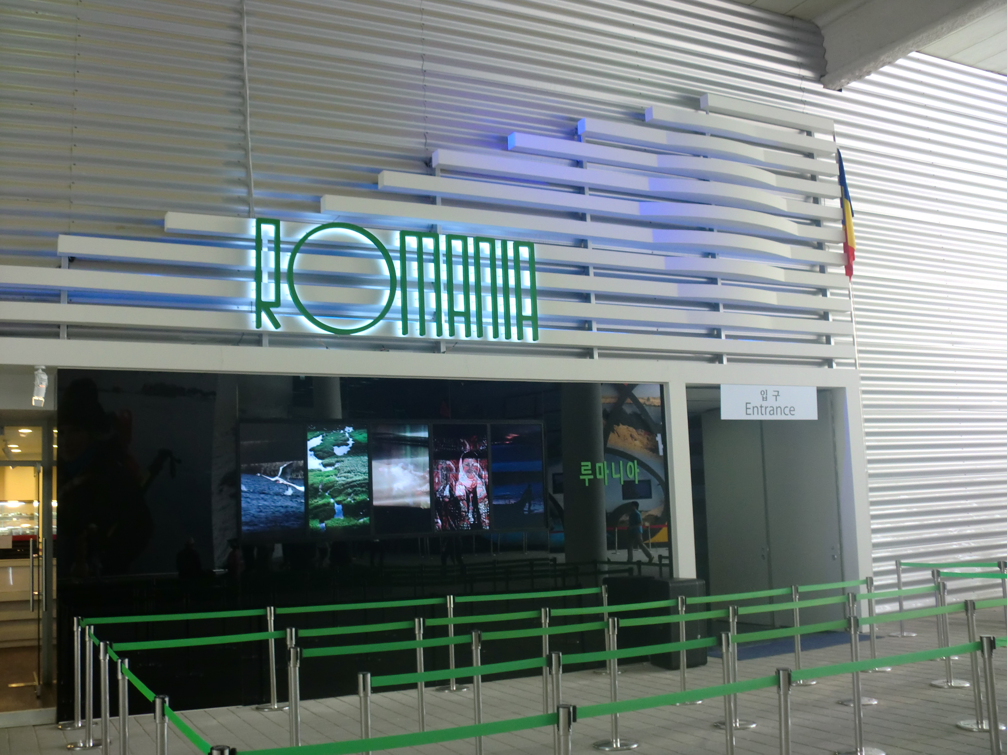 Expo 2012 International pavilion Romania